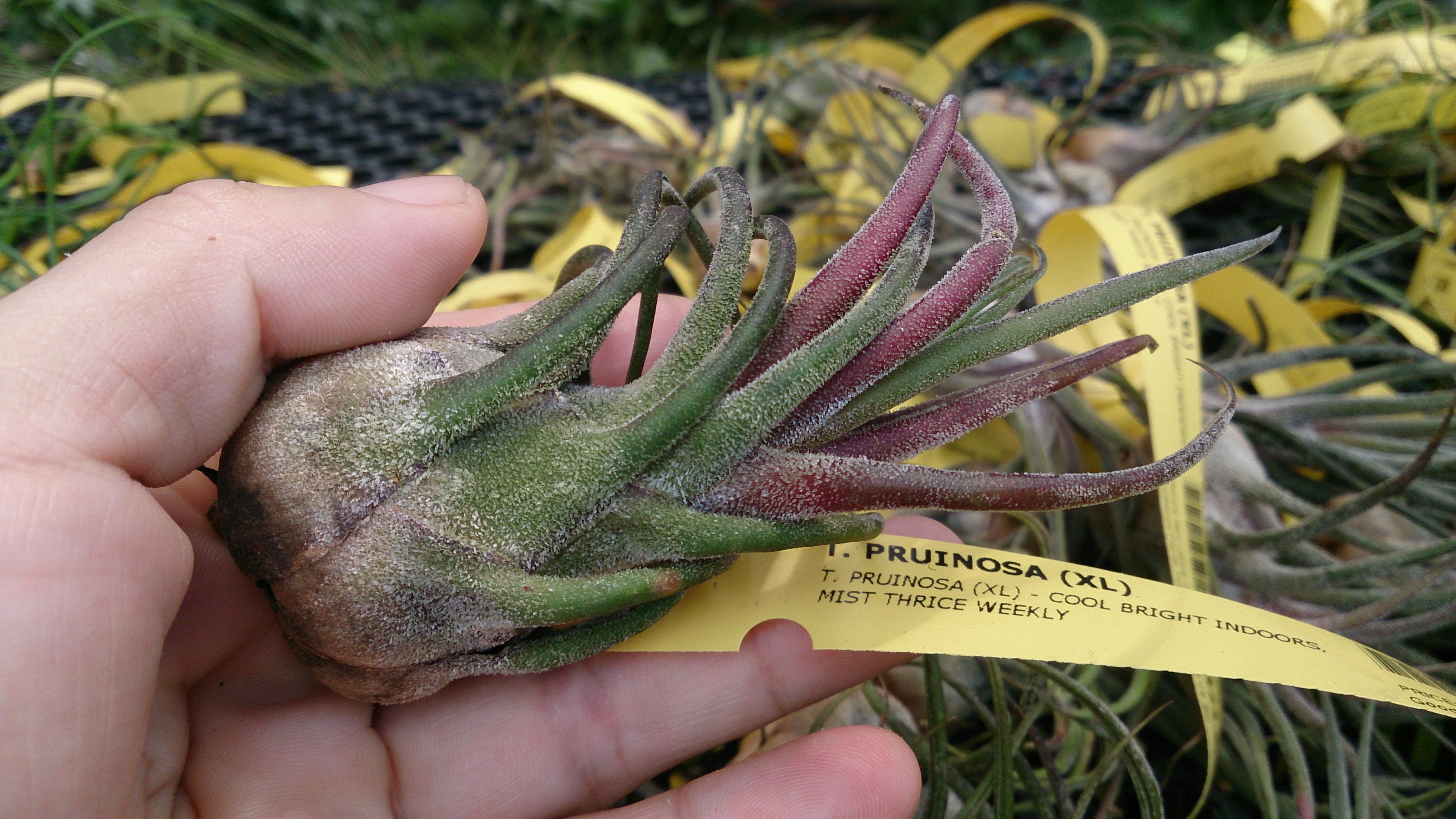 Tillandsia pruinosa. Common name: Fuzzywuzzy Airplant